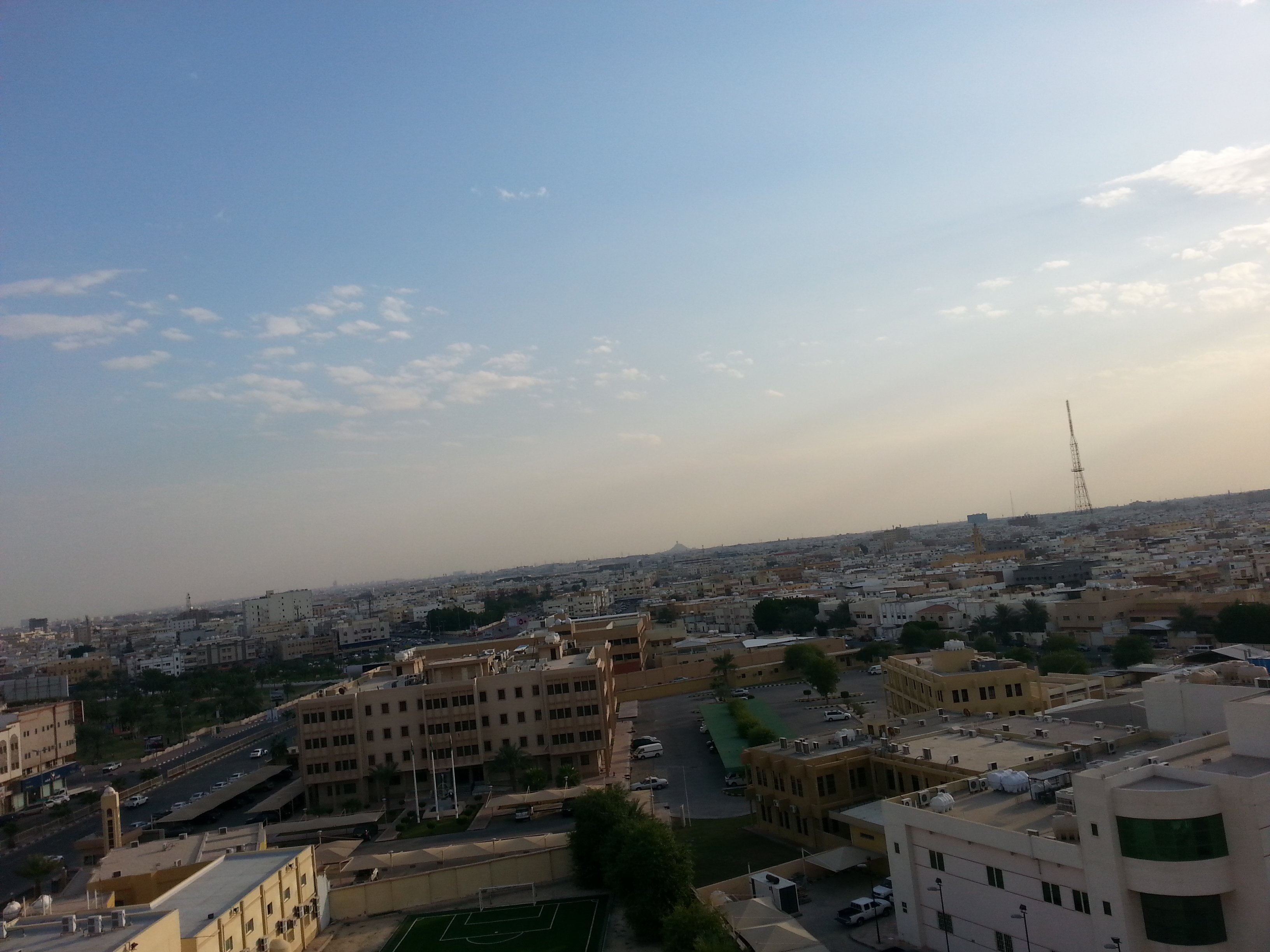 Ghornata area